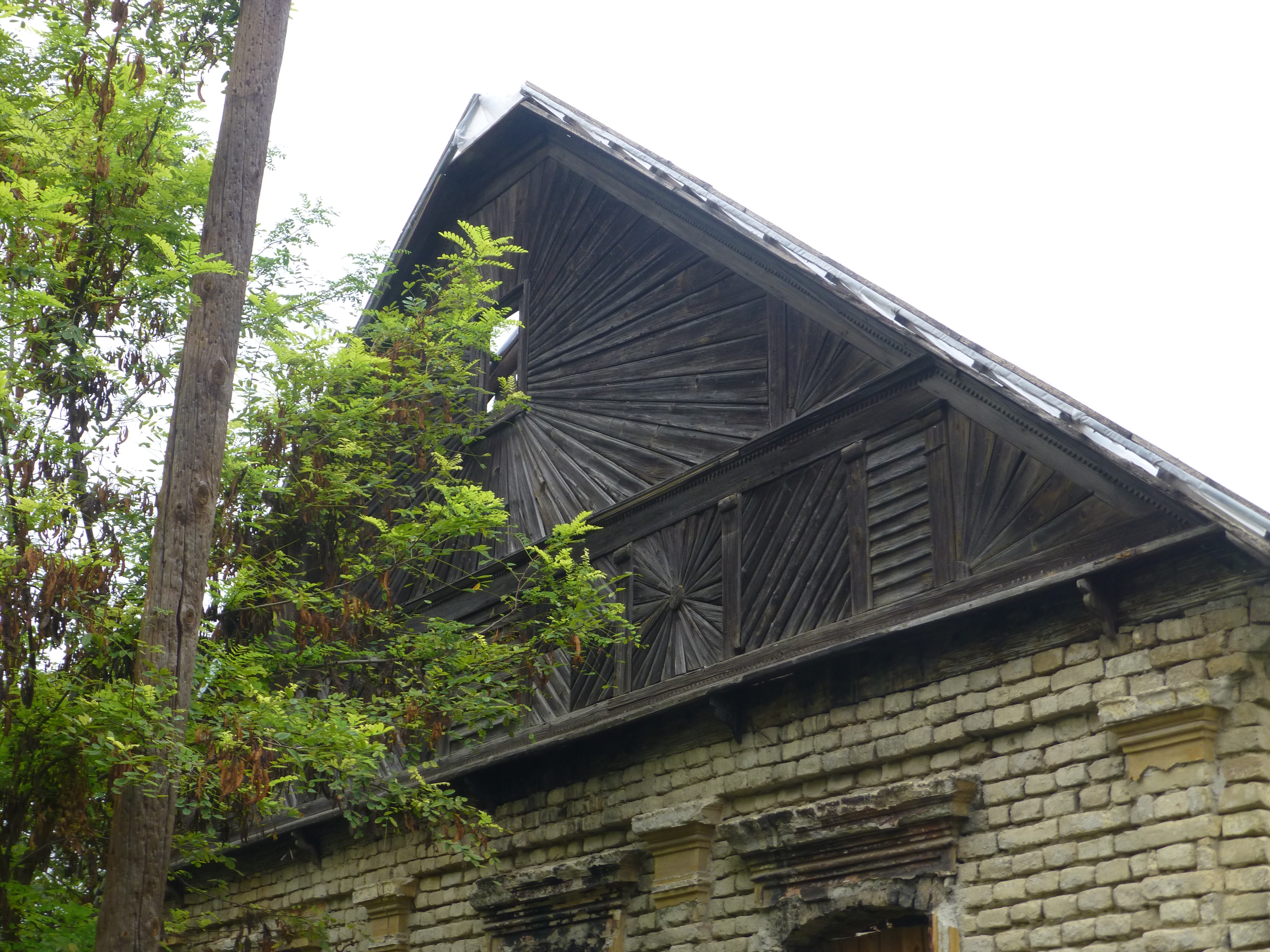 Detail of Kakuszy-house in Szeged This is a photo of a monument in Hungary. Identifier: 3431